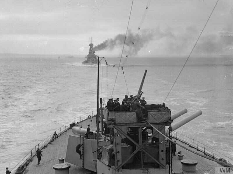 IWM caption : Anti-aircraft gun practice on board HMS Bellerophon at Scapa Flow". Comment : appears to be a QF 3-inch 20 cwt anti-aircraft gun.